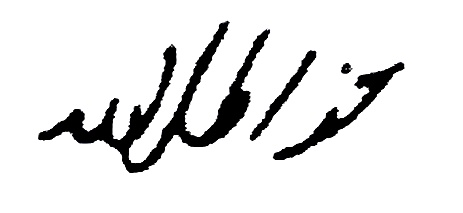 Signature of Hadhrat Mirza Tahir Ahmad